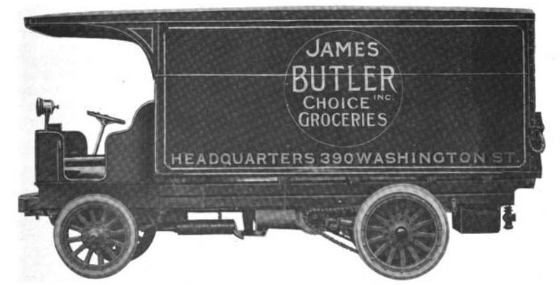 Garford delivery truck - Elyria, Ohio